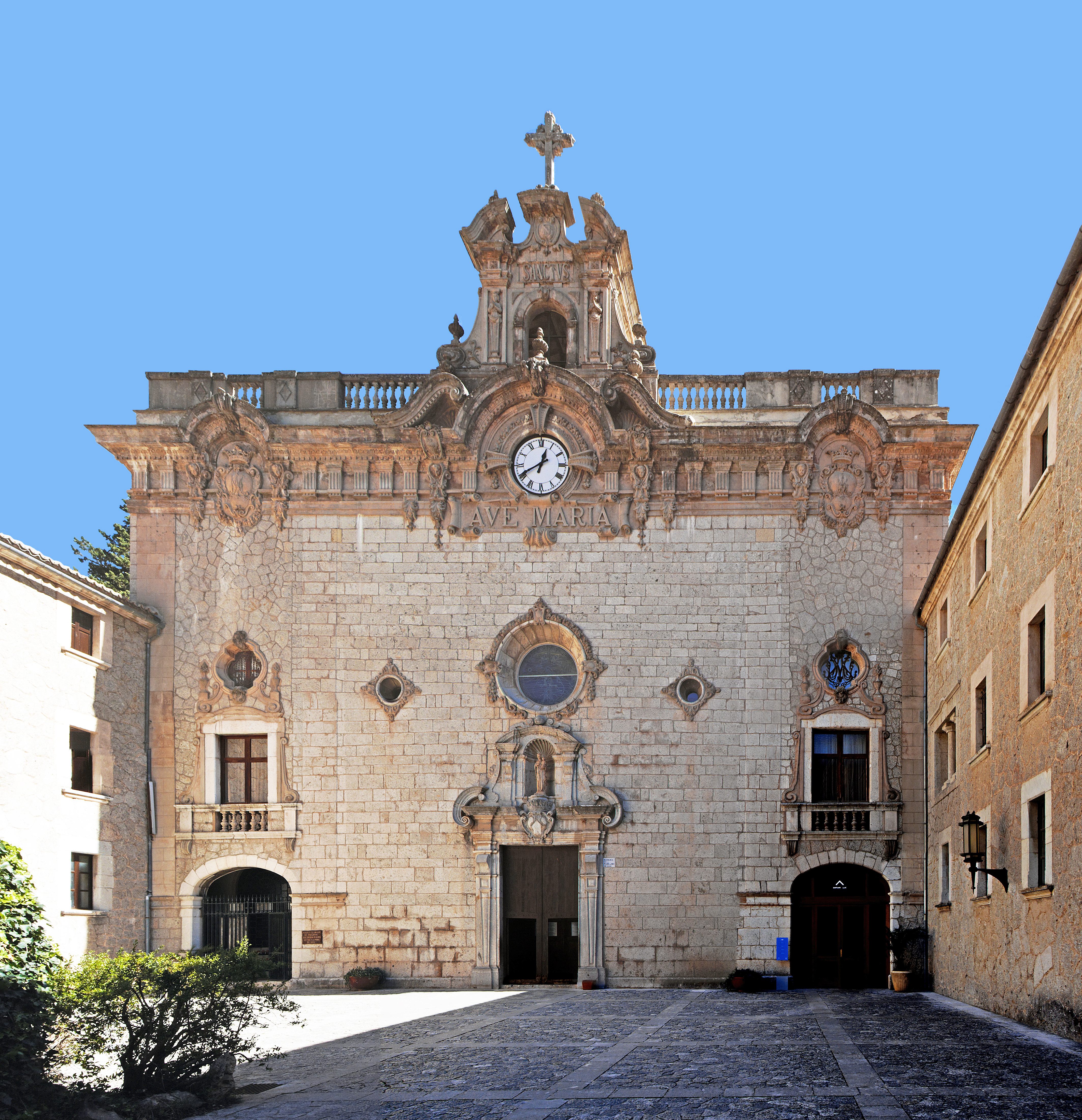 Facade of the Basilica of Santuari de Lluc, Escorca, Majorca.